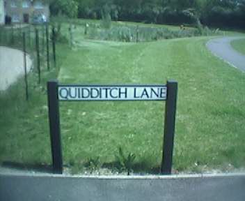 Quidditch Lane, Cambourne, taken by Tony Sidaway (User: Minority Report) 17 May, 2004 Cambourne is a new town that has grown up in Cambridgeshire between Cambridge and Bedford. Quidditch Lane is named after an old English word for a dry ditch, but some people who live in the street are proud of the Harry Potter connection and have given their houses names like "The Golden Snitch" and "The Quaffle." --Minority Report (IT or PR enormity) 19:53, 23 Nov 2004 (UTC)